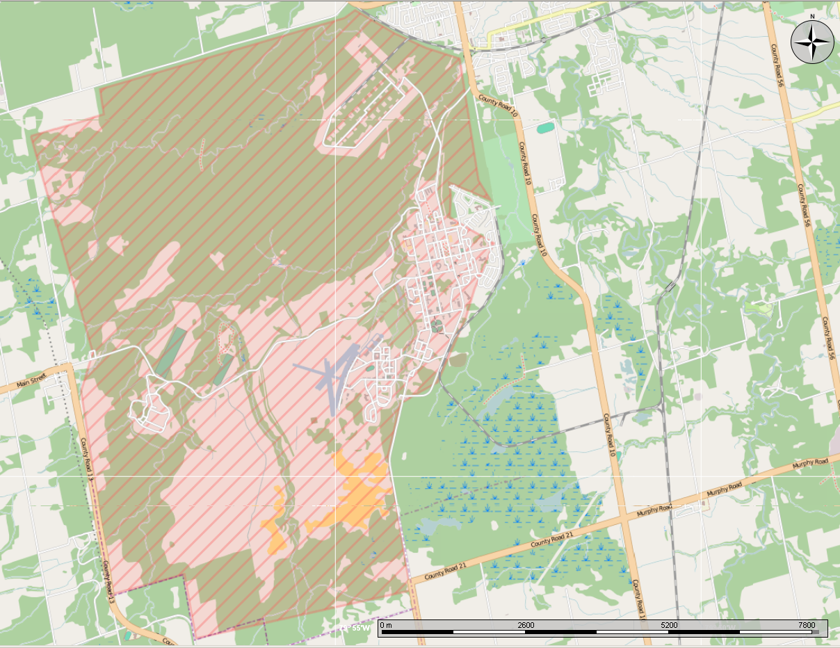 Open Street Map showing CFB Borden and the surrounding area. Using the Marble program, further cropping with GIMP.